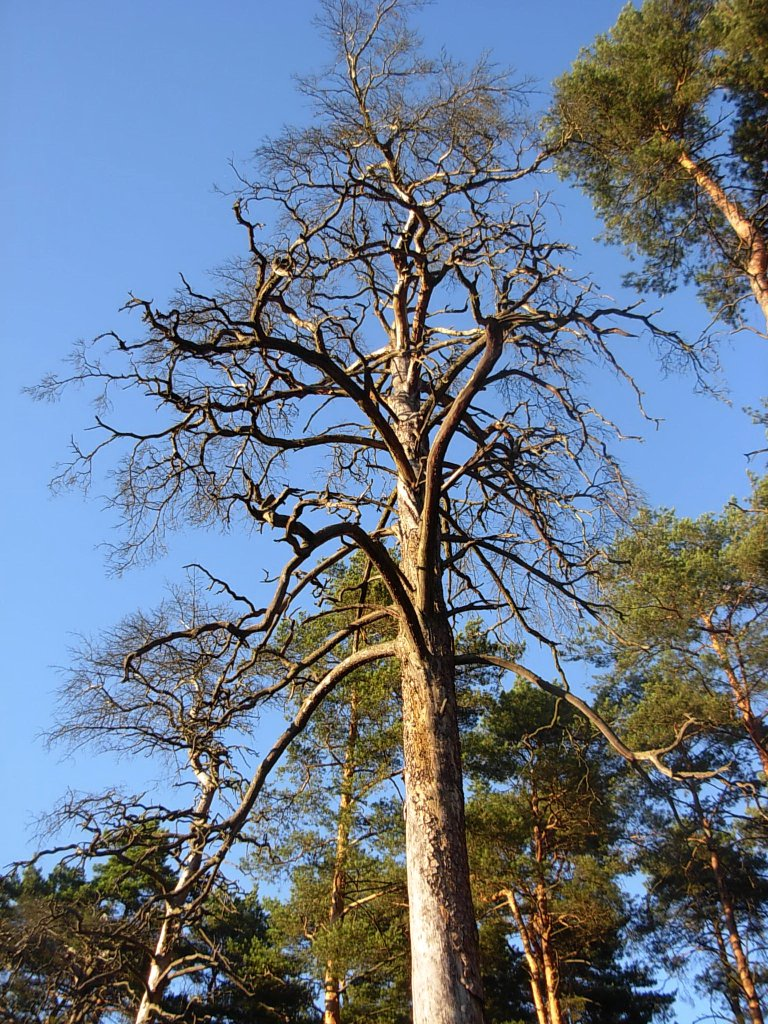 Nature reserve Łążyn